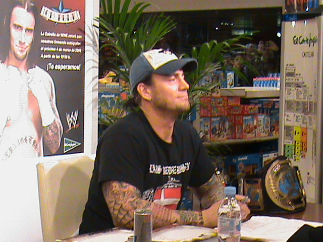 Is the wrestler CM Punk signing autographs in Madrid, Spain